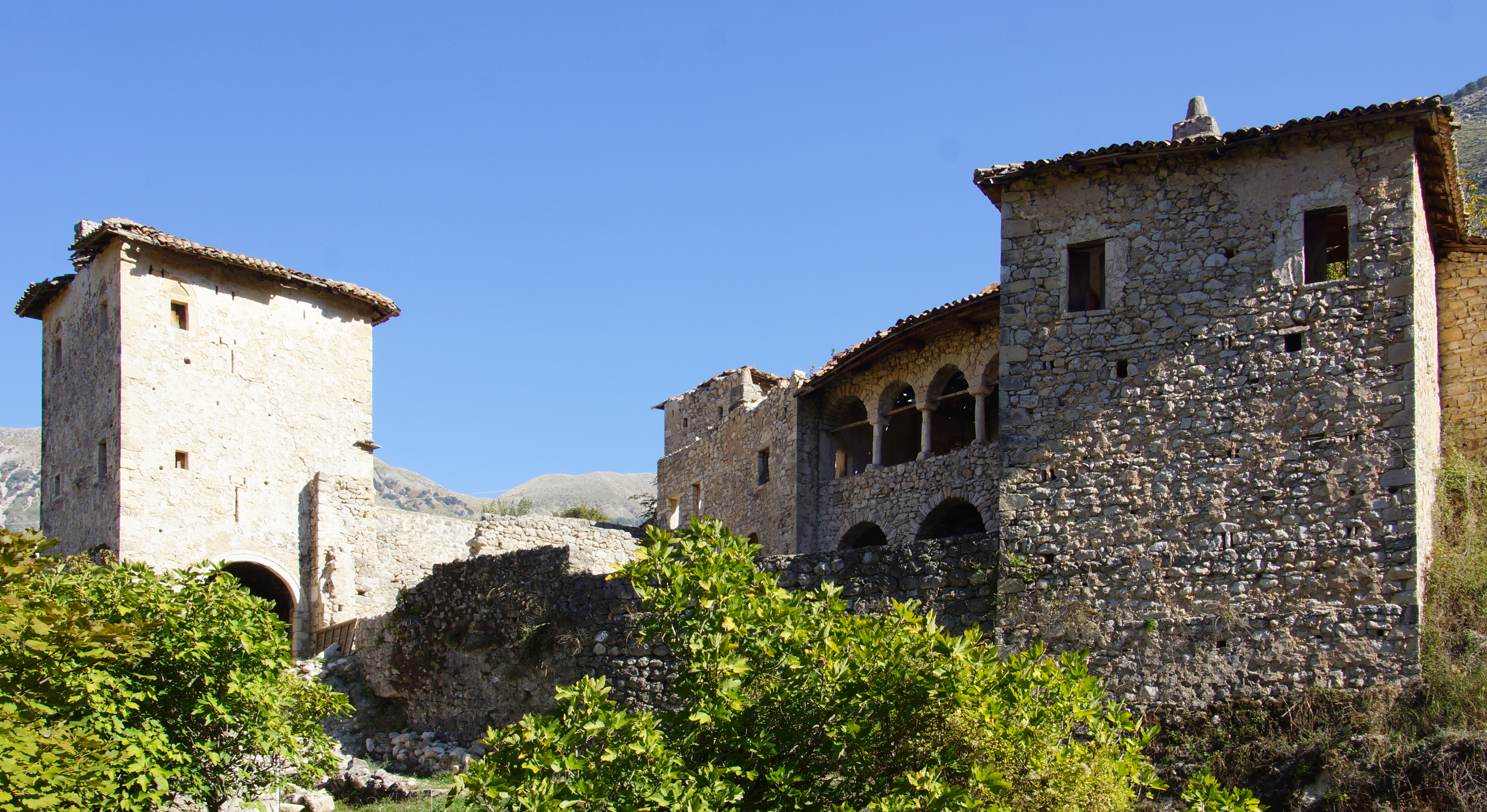 Photo realized during the expedition around Albania for the project The Albanian House